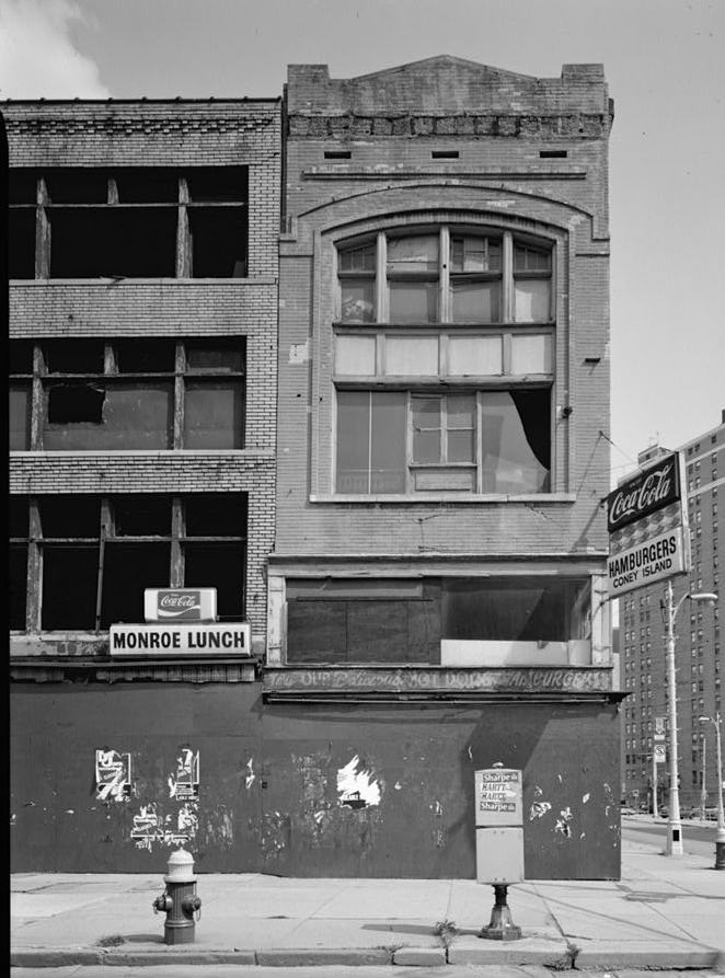 101-102 Monroe Avenue (Commercial Building) — Detroit, Michigan. Historic American Buildings Survey—HABS image (1989).